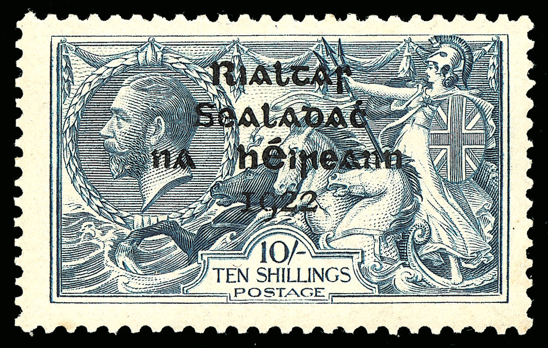 Great Britain 1922 10 shilling Seahorse stamp.